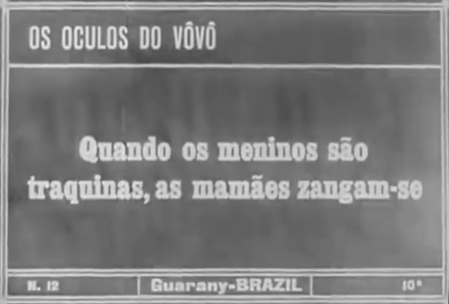 Scene of the film "Os óculos do vovô" (1913) by Francisco Dias Ferreira dos Santos